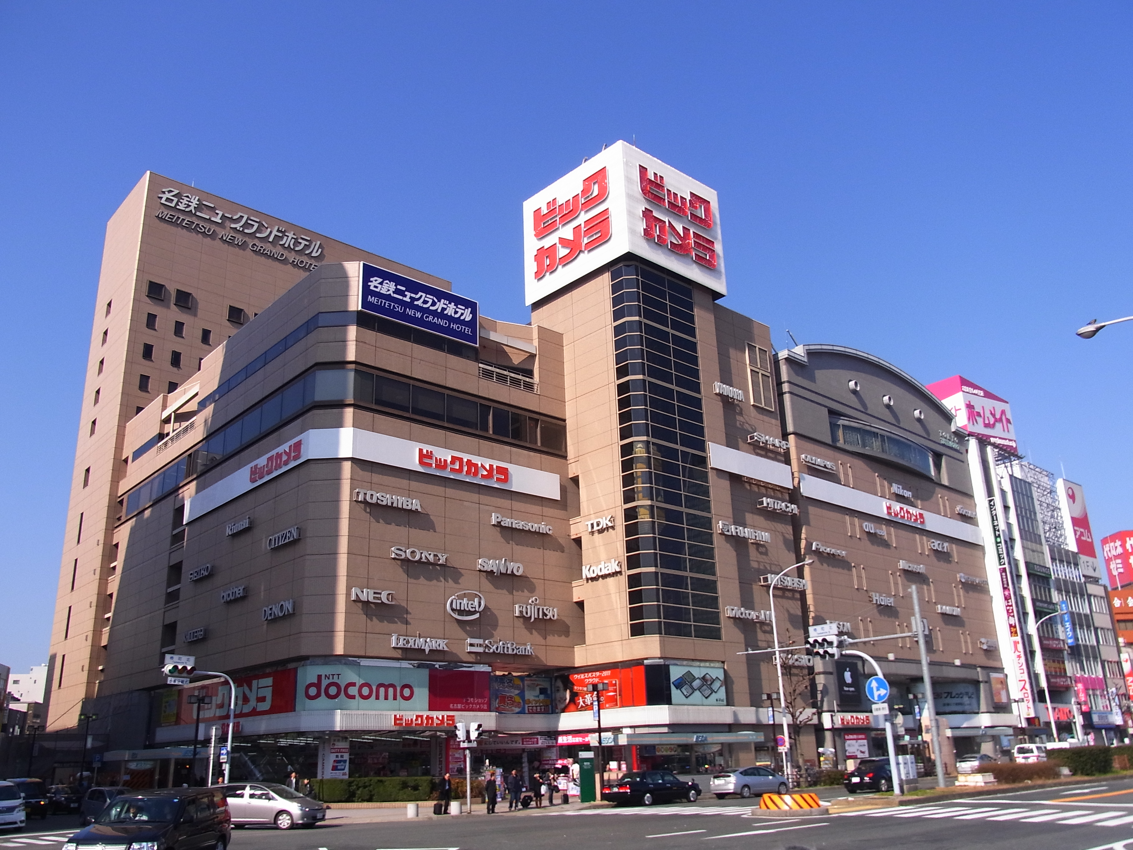 Bic Camera Nagoya-Ekinishi in Nakamura-ku Ward, Nagoya City.